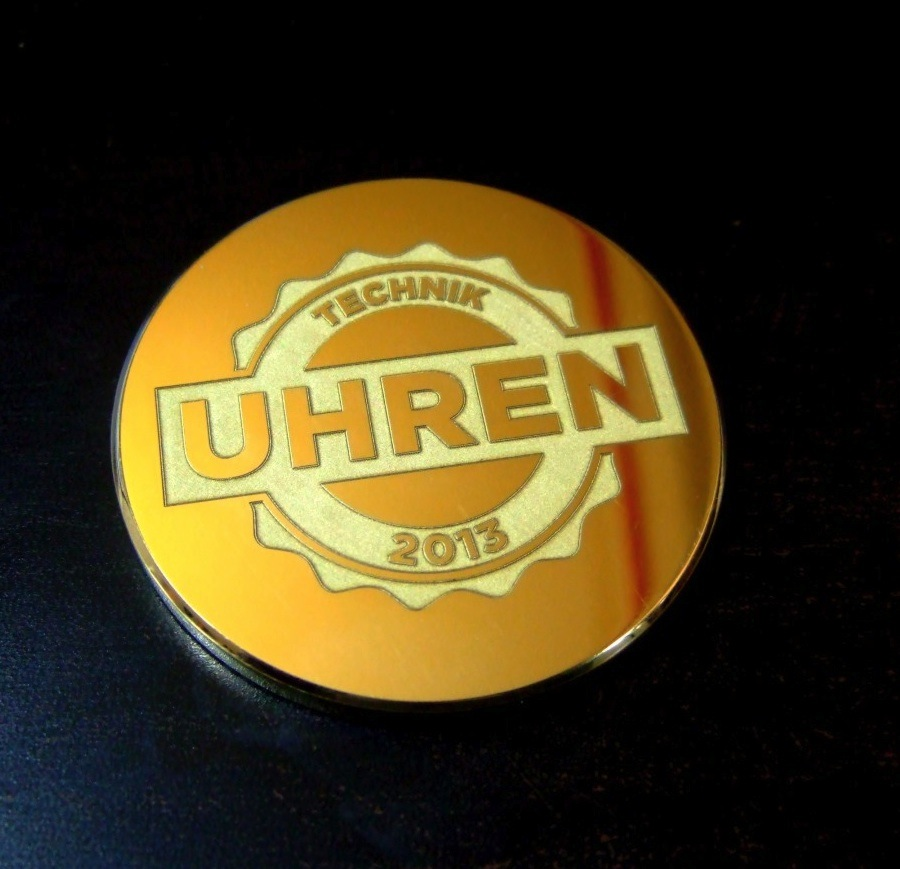 Gold medal technology special price of the jury golden balance wheel